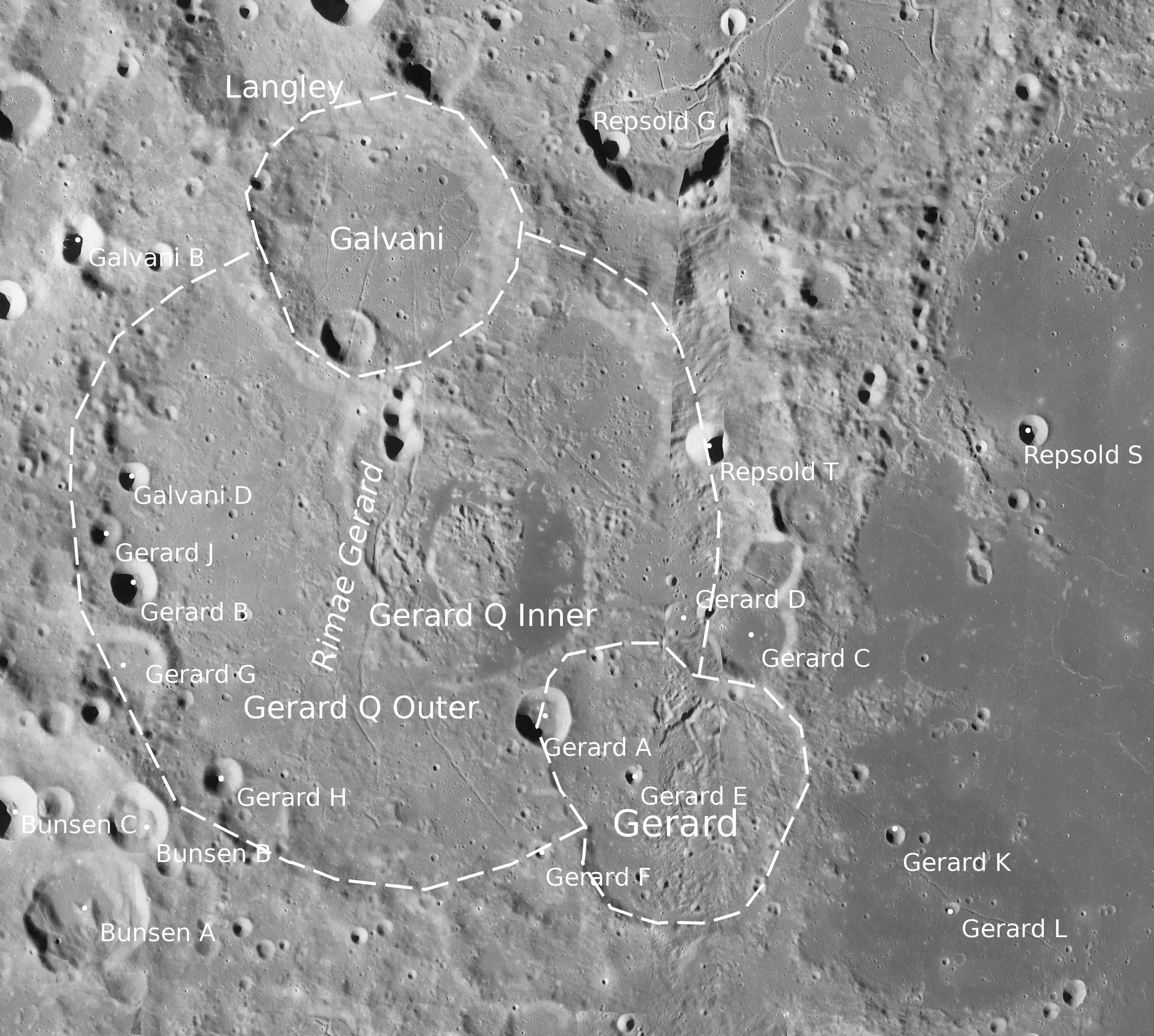 Crater Gerard with satellite features (detail of LRO - WAC global moon mosaic; Mercator projection)